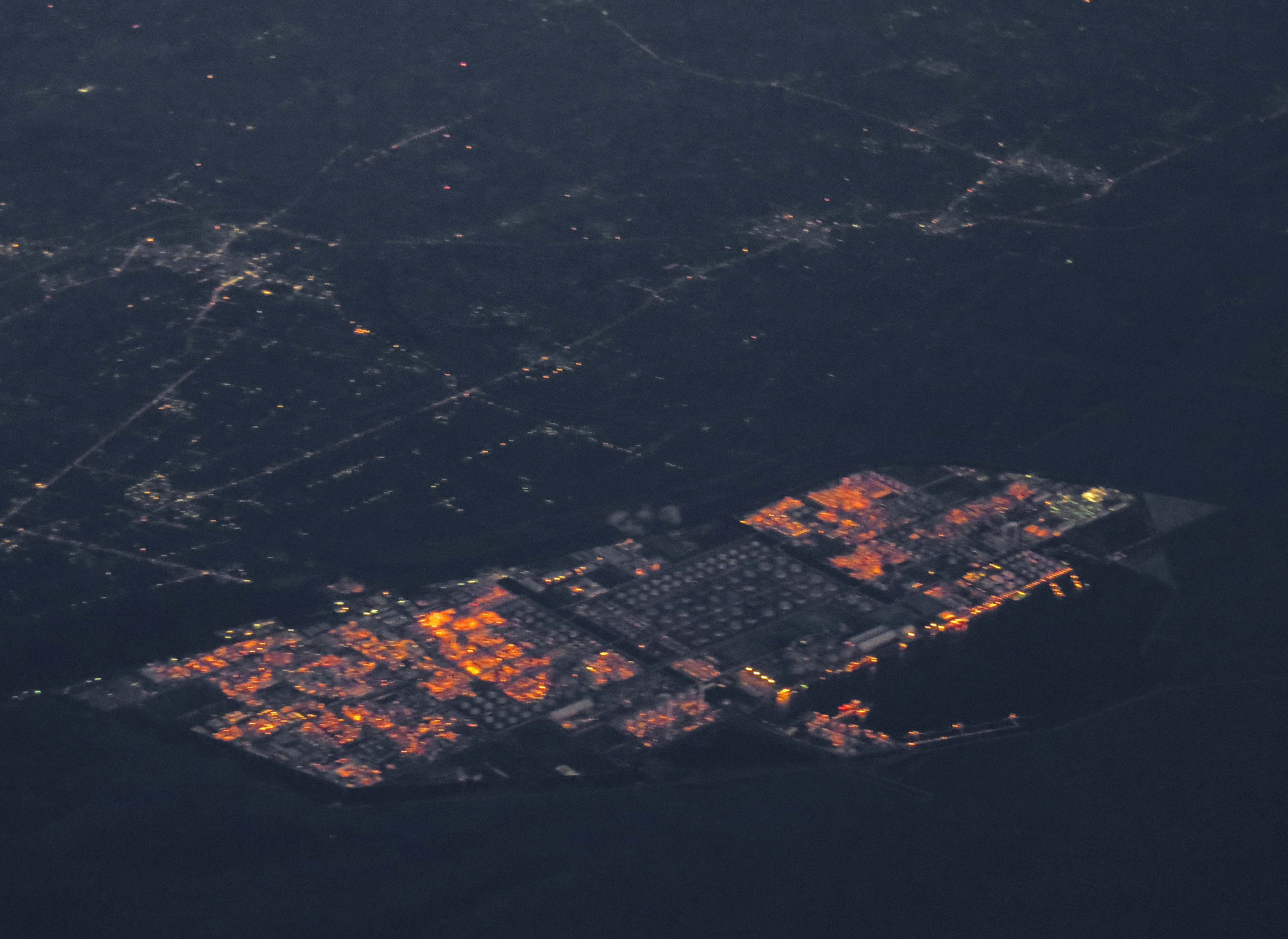 Sixth Naphtha Cracking Plant at night, Mailiao Township, Yunlin County, Taiwan.